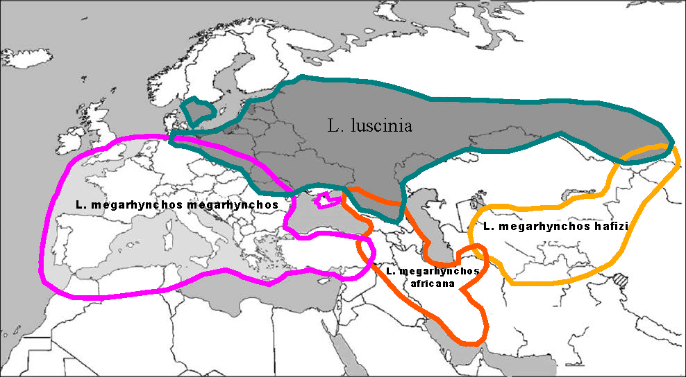 Luscinia megarhynchos. Distribution map